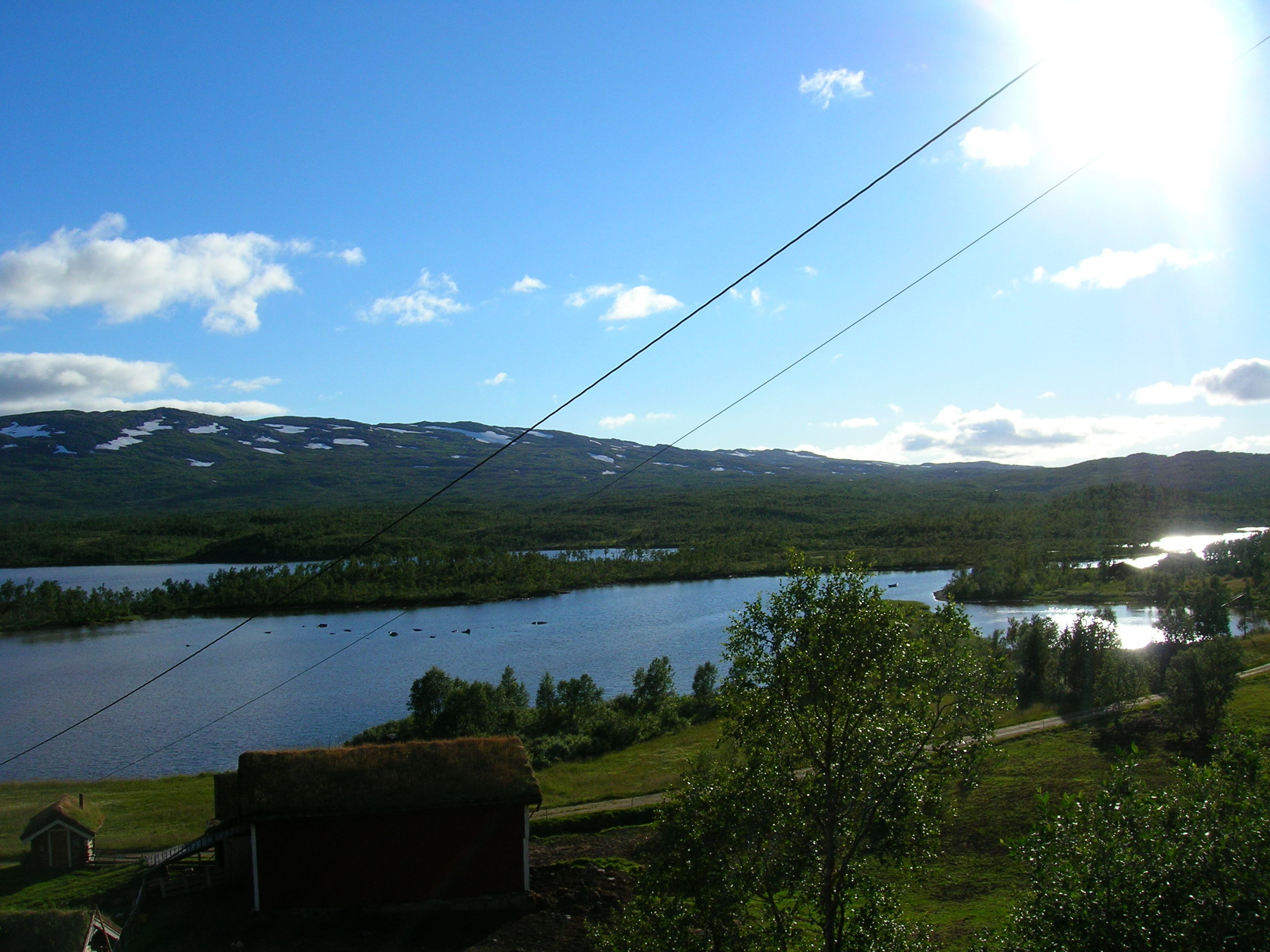 Raudvatnet in the autumn. Rana municipality, county of Nordland, Norway. Photo 30 September 2005 with a Nikon Coolpix 5600 5,1 Megapixel camera.